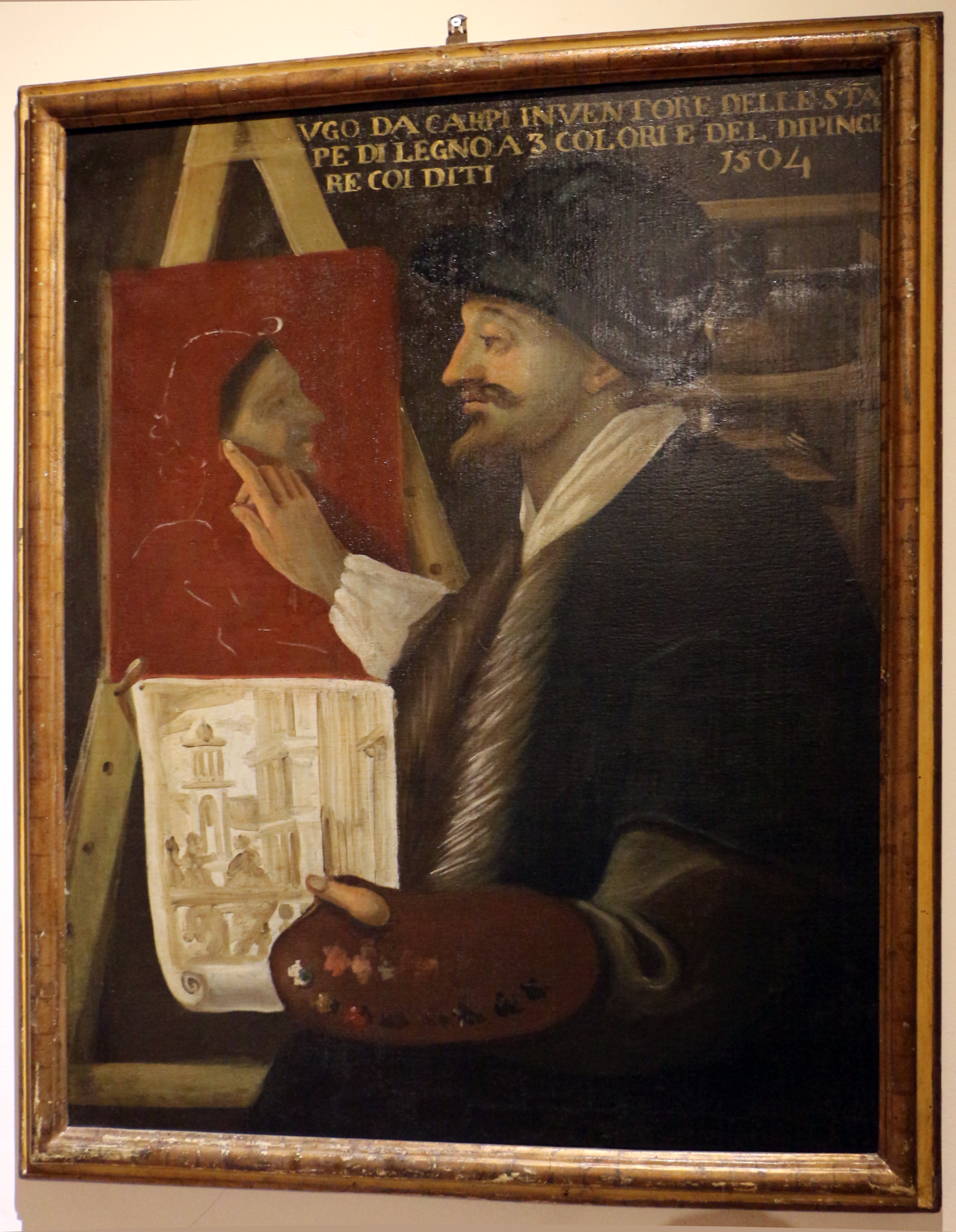 Antonio Montanari, Portrait of Ugo da Carpi, Carpi, Collections of the Museo Civico.